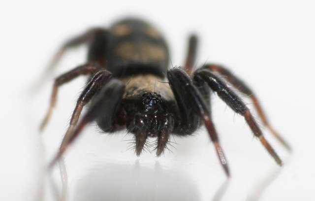 Facial view of a female Callilepis nocturna.